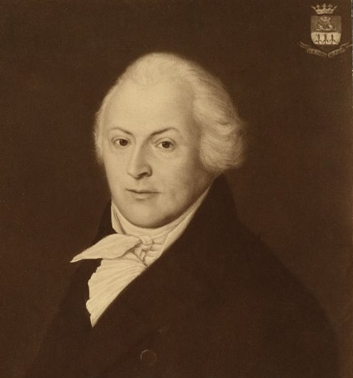 Michel-Eustache-Gaspard-Alain Chartier de Lotbinière, 1748-1822